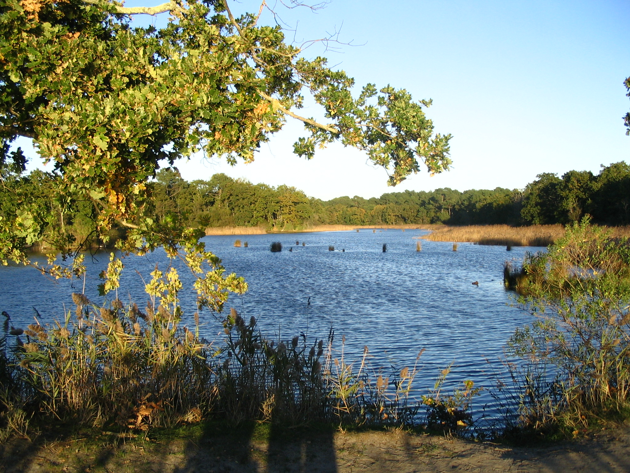 Natural reserve on the Bassin d'Arcachon - Andernos-les-Bains, France